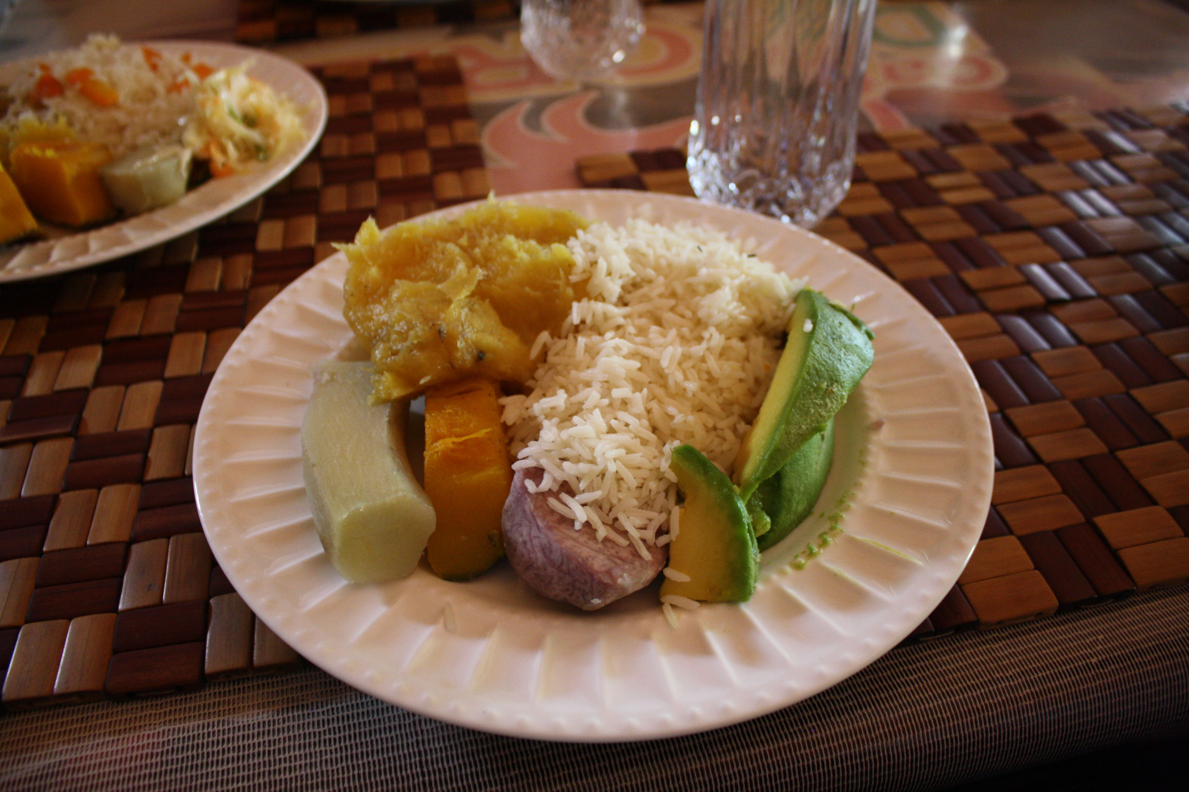 Matooke, Rice, Sweet Potato, Pumpkin etc.